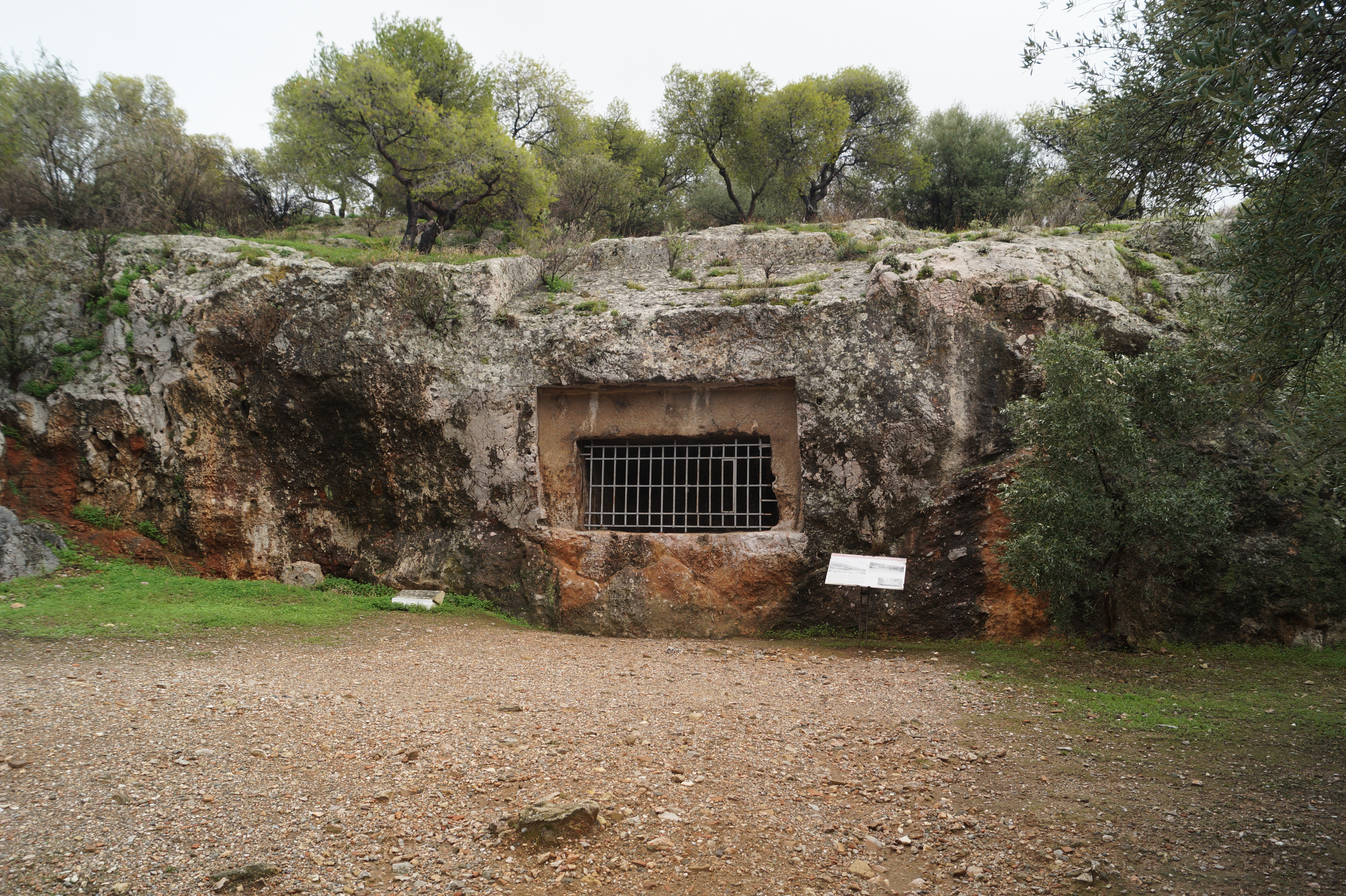 Athens, Greece: Kimoneia, tomb of Kimon.